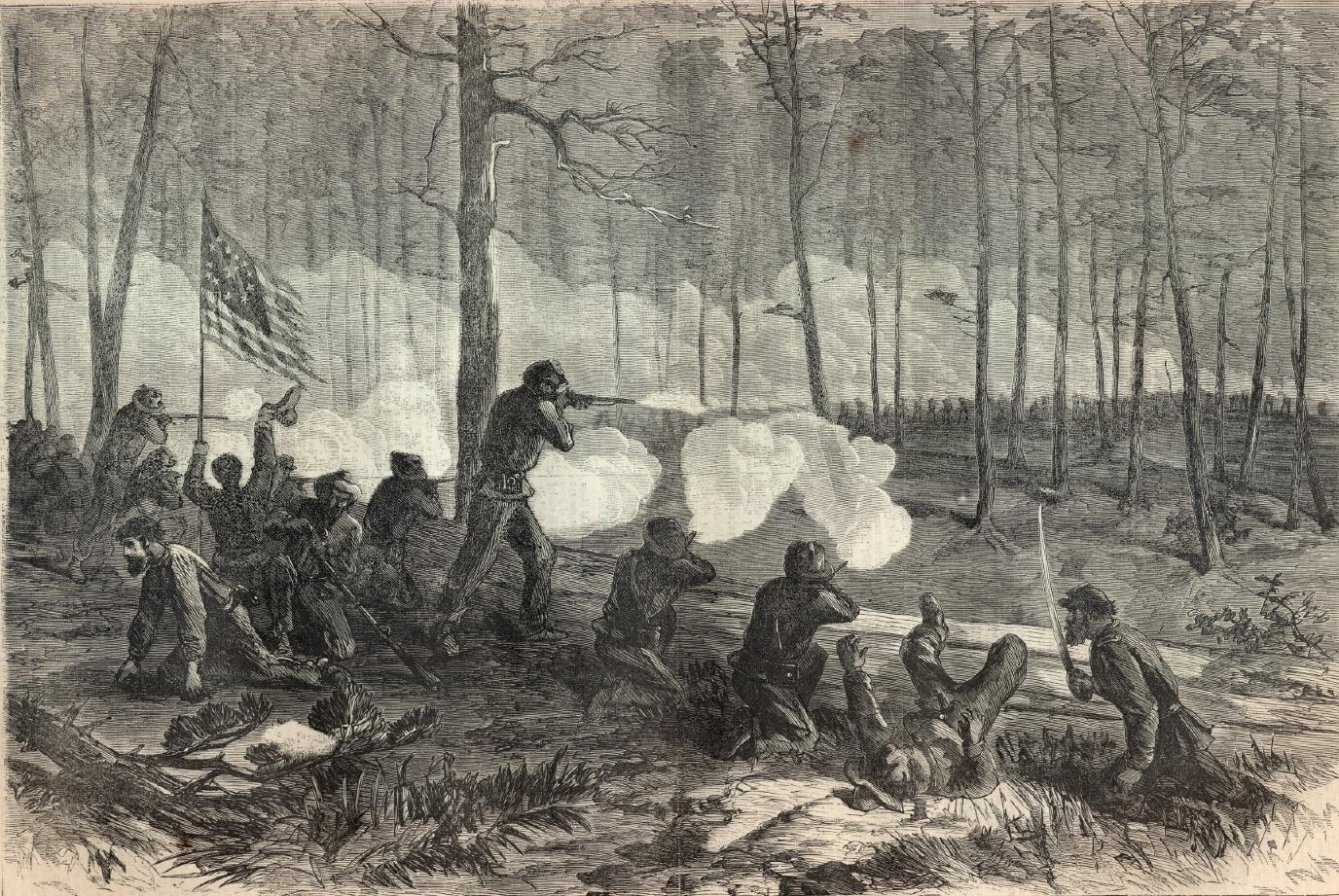 Engraving of the Battle of Ezra Church, which took place on July 28, 1864 in Fulton County, Georgia.